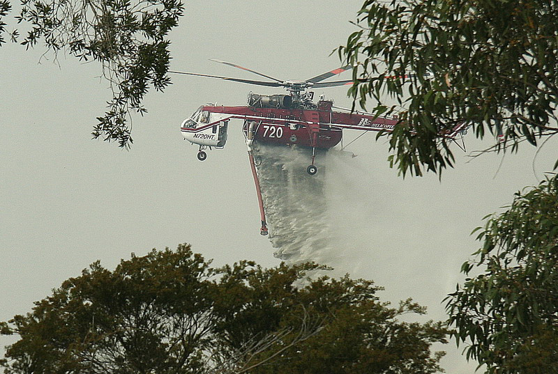 "Shania" (N720HT) Mt Kuring-gai Summer Water Bomber ... nicknamed Elvis